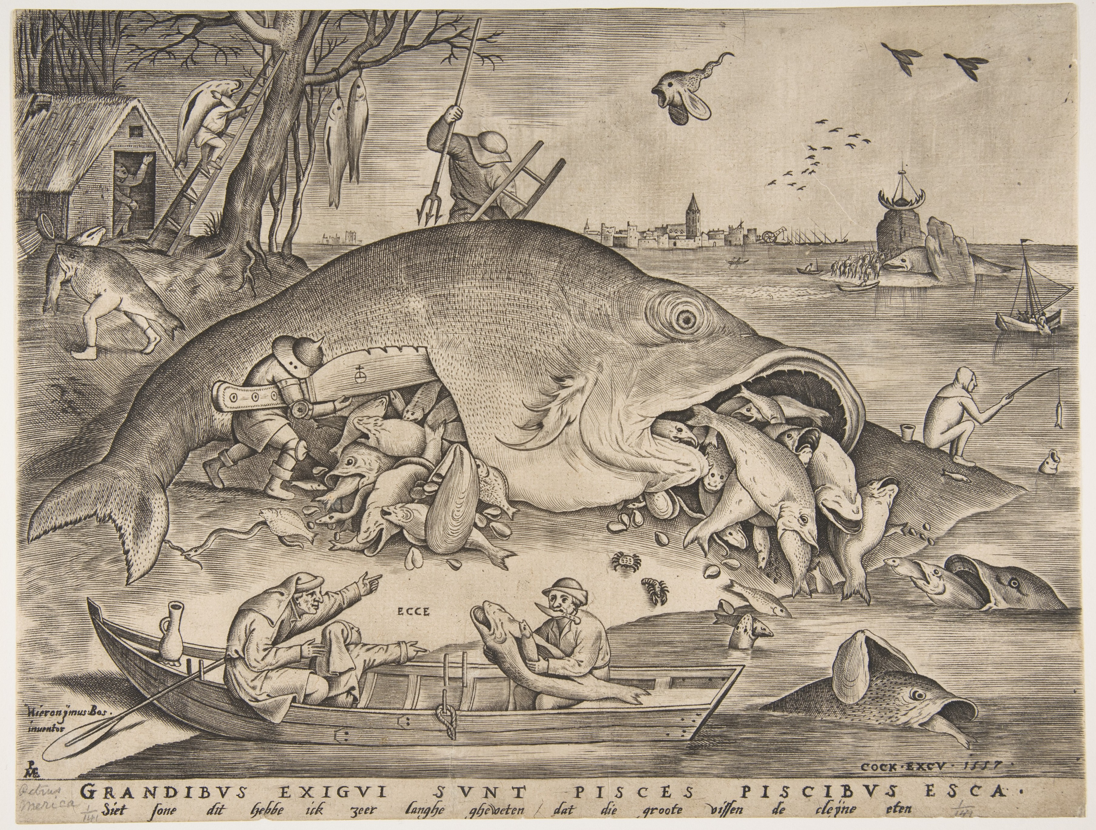 Print; Prints